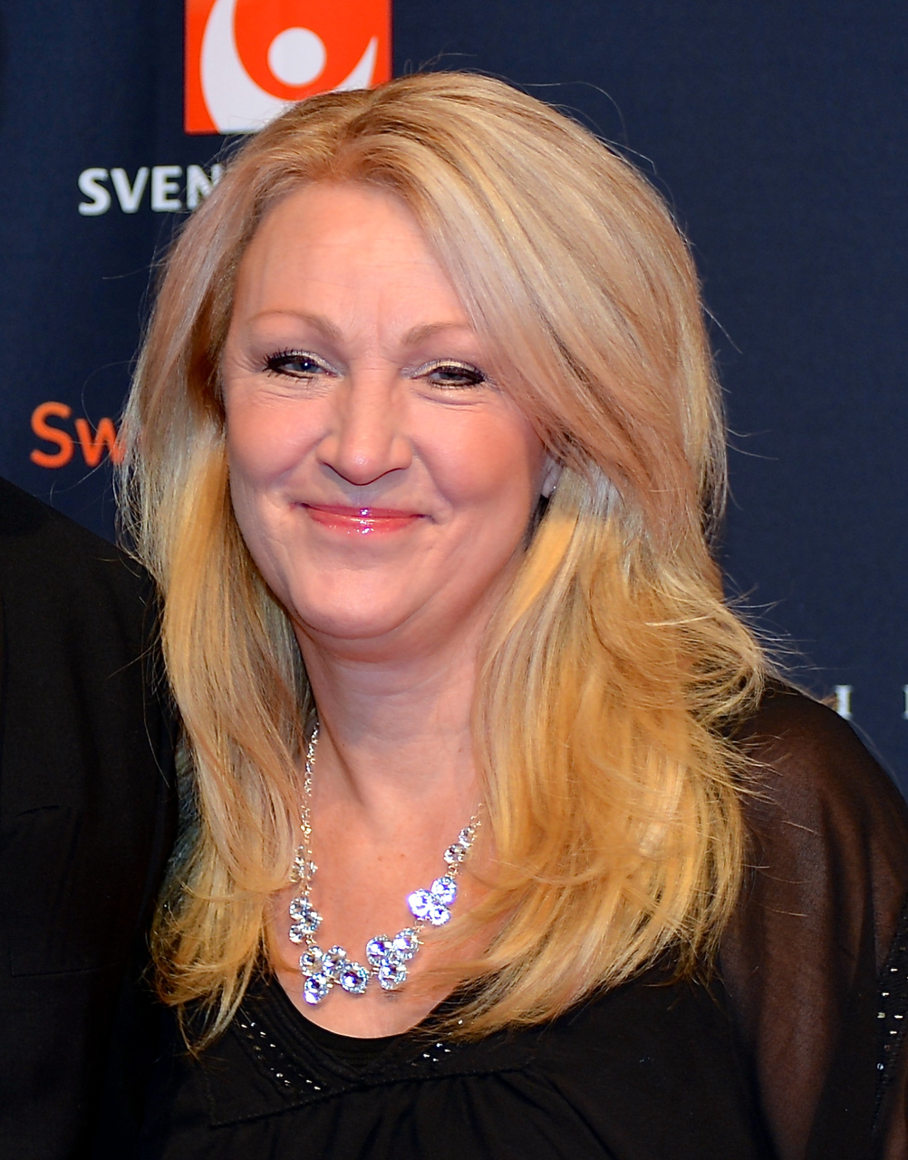 Jane Björck at the Swedish Sports Gala at the Ericsson Globe in Stockholm, January13, 2014.